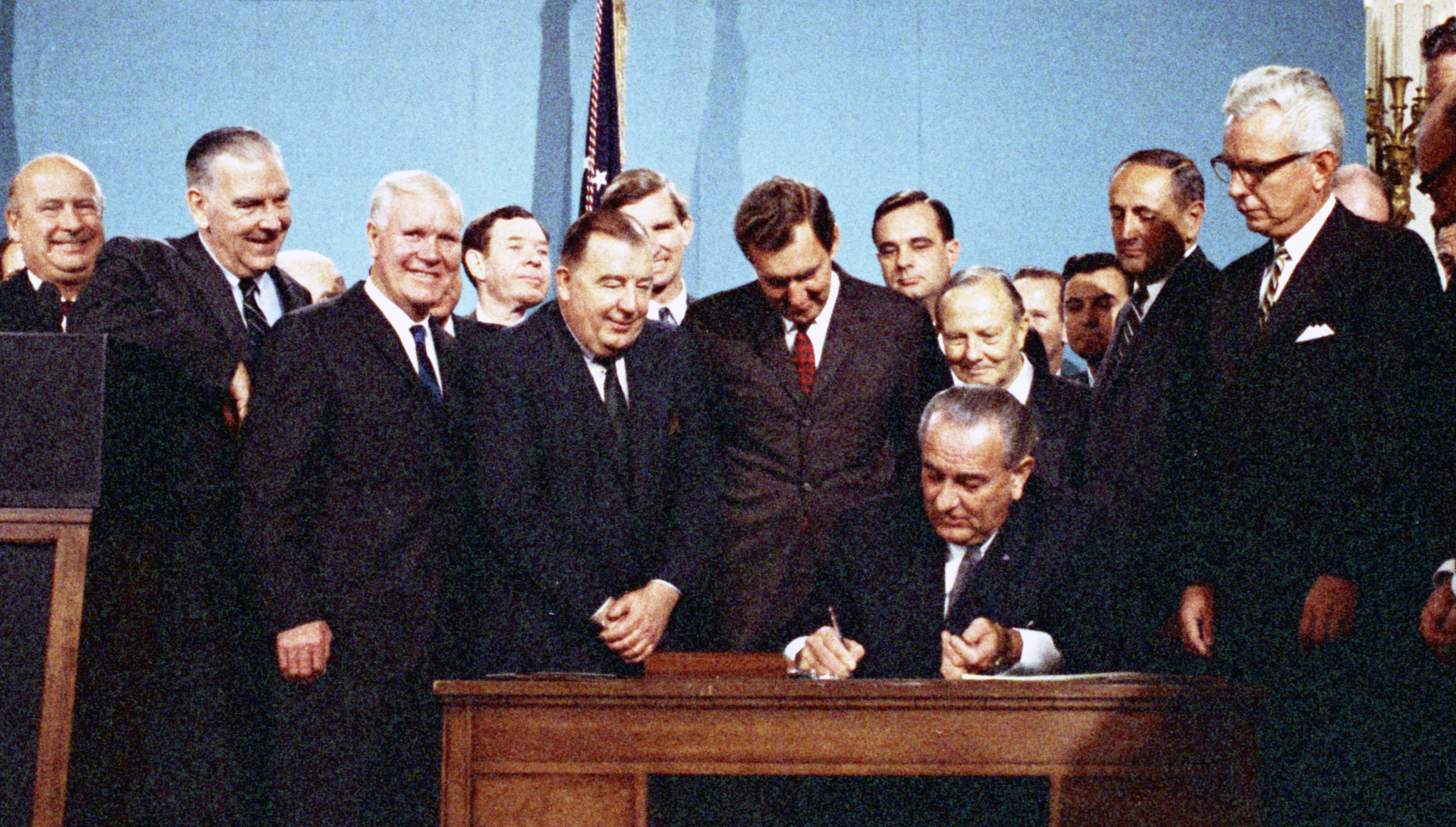 This is a retouched picture, which means that it has been digitally altered from its original version. Modifications: cropped, automatic retouching on brightness, contrast, tone. The original can be viewed here: Clean Air Act Signing.jpg: . Modifications made by Brandt Luke Zorn.